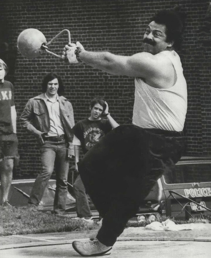 1973 Press Photo George Frenn at the Russian-Americon Indoor Track & Field Meet